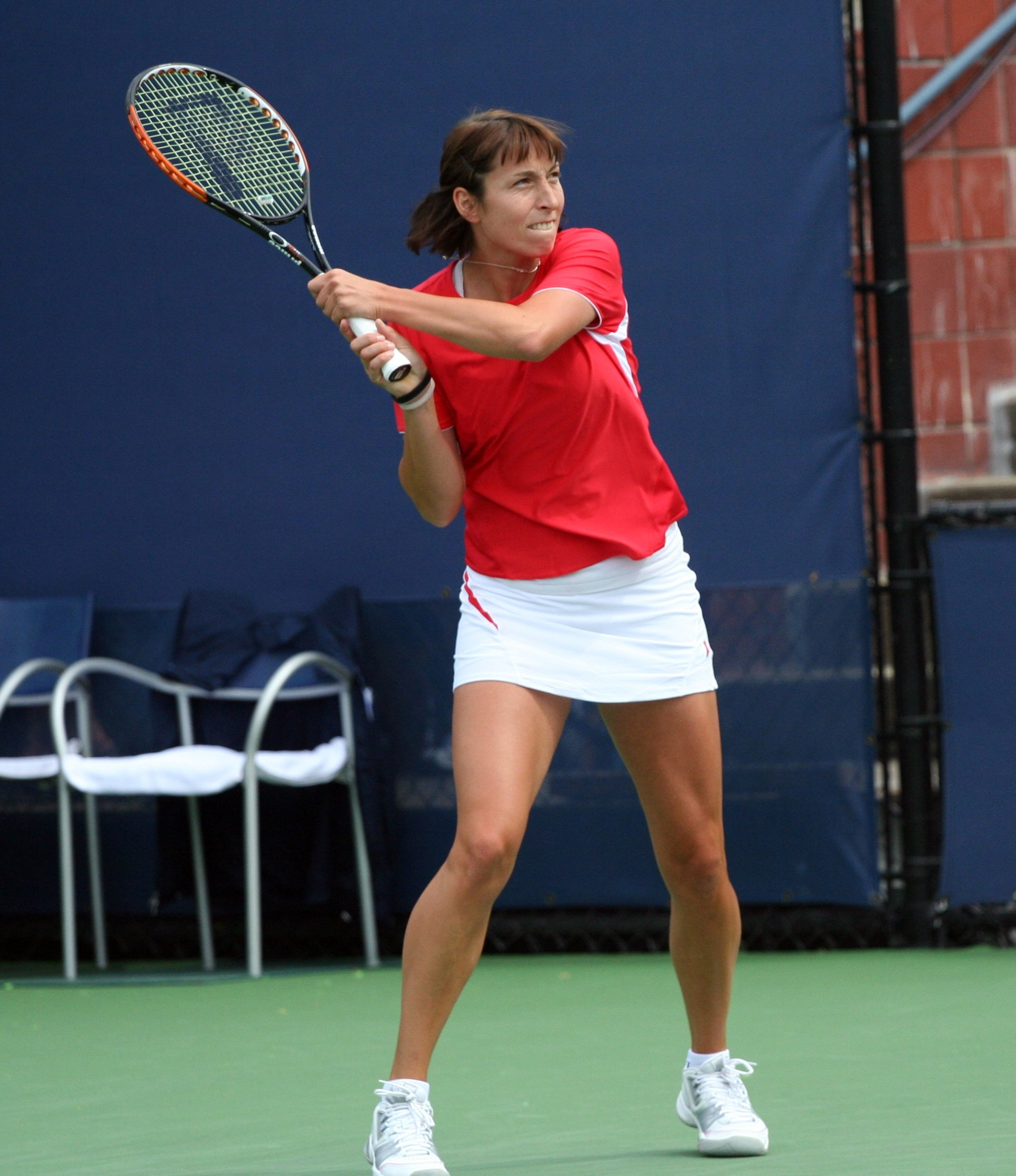 U.S. Open Monday, Aug. 31, 2009